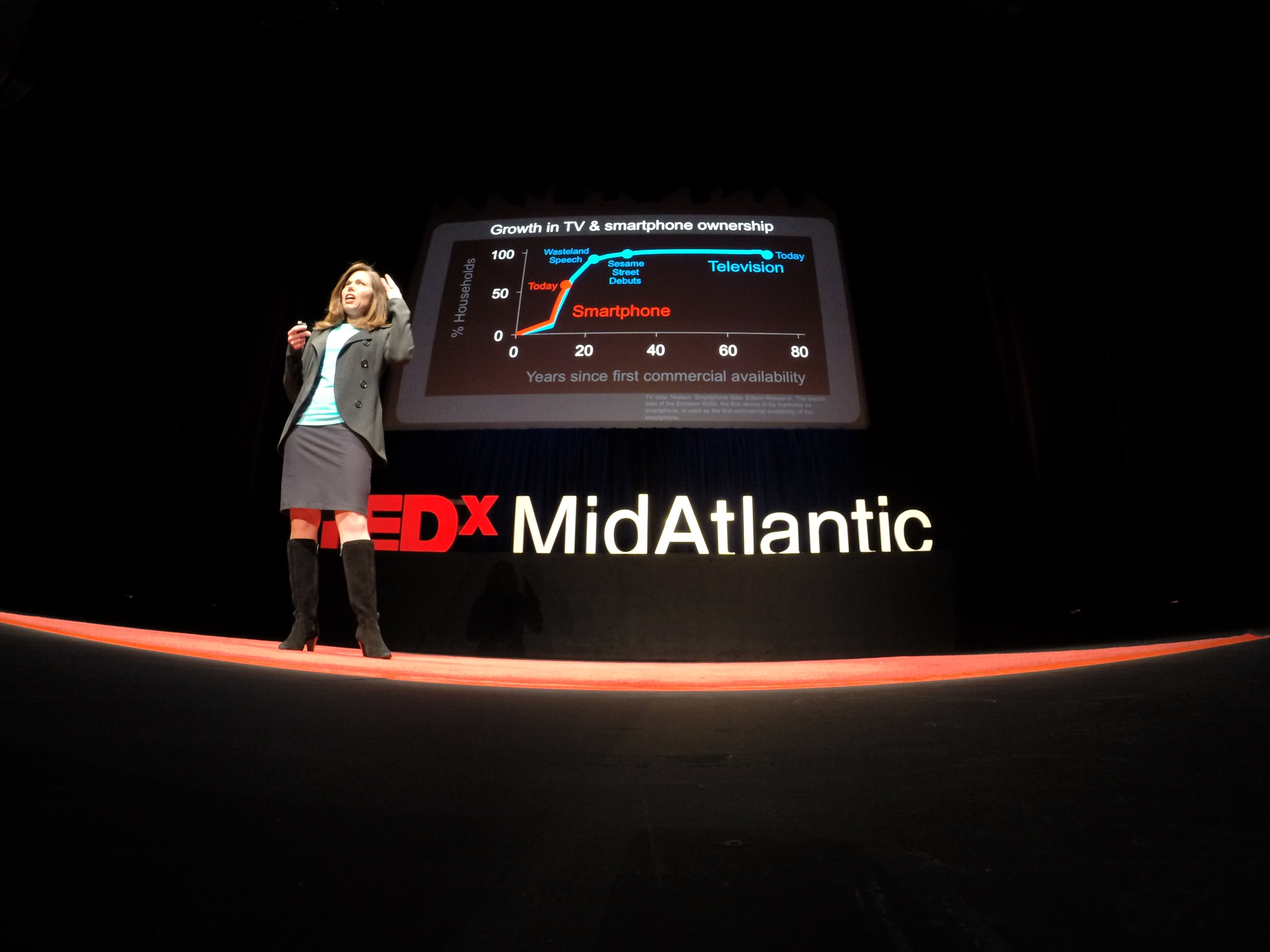 Lisa Guernsey speaking about the effects that technology can have on children's literacy at TEDx MidAtlantic.